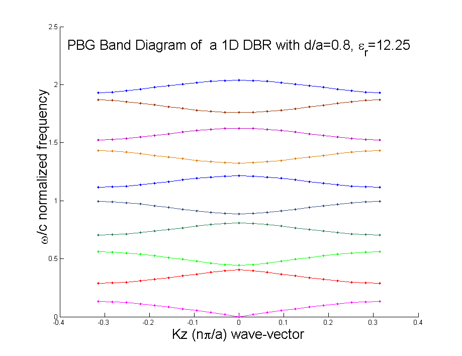 I calculated the bandstructure using a simple piece of numerical code using a standard reference.